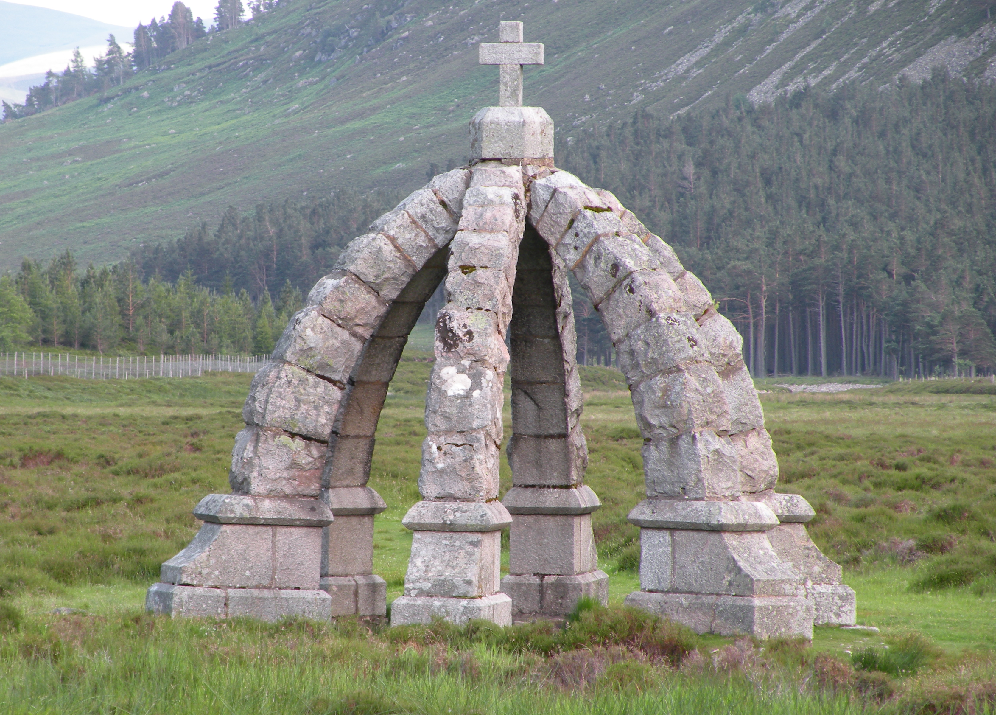 The Queen's Well Monument in Glen Mark valley (Scotland) near Glenmark